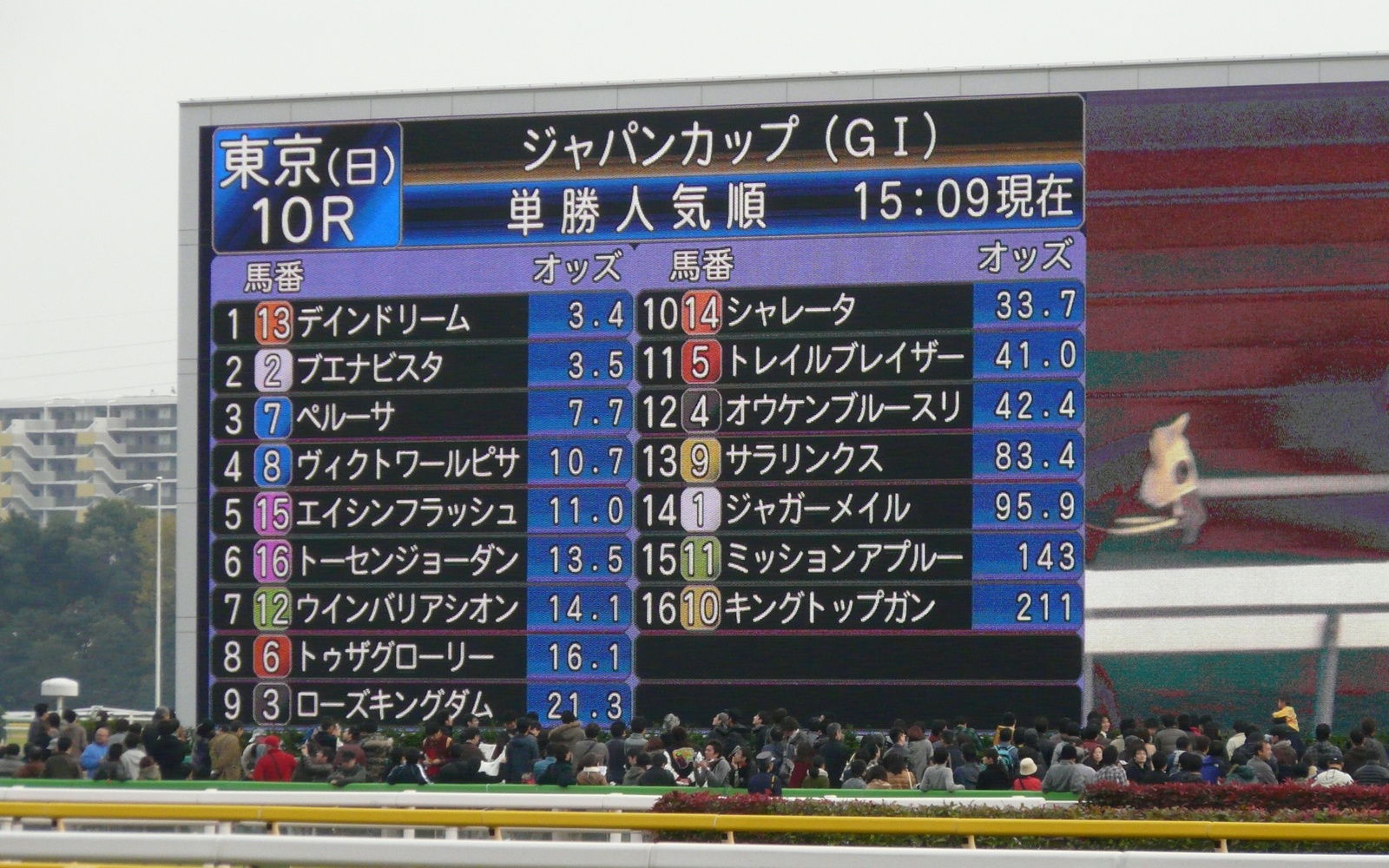 Tokyo-racecourse-turfvision2